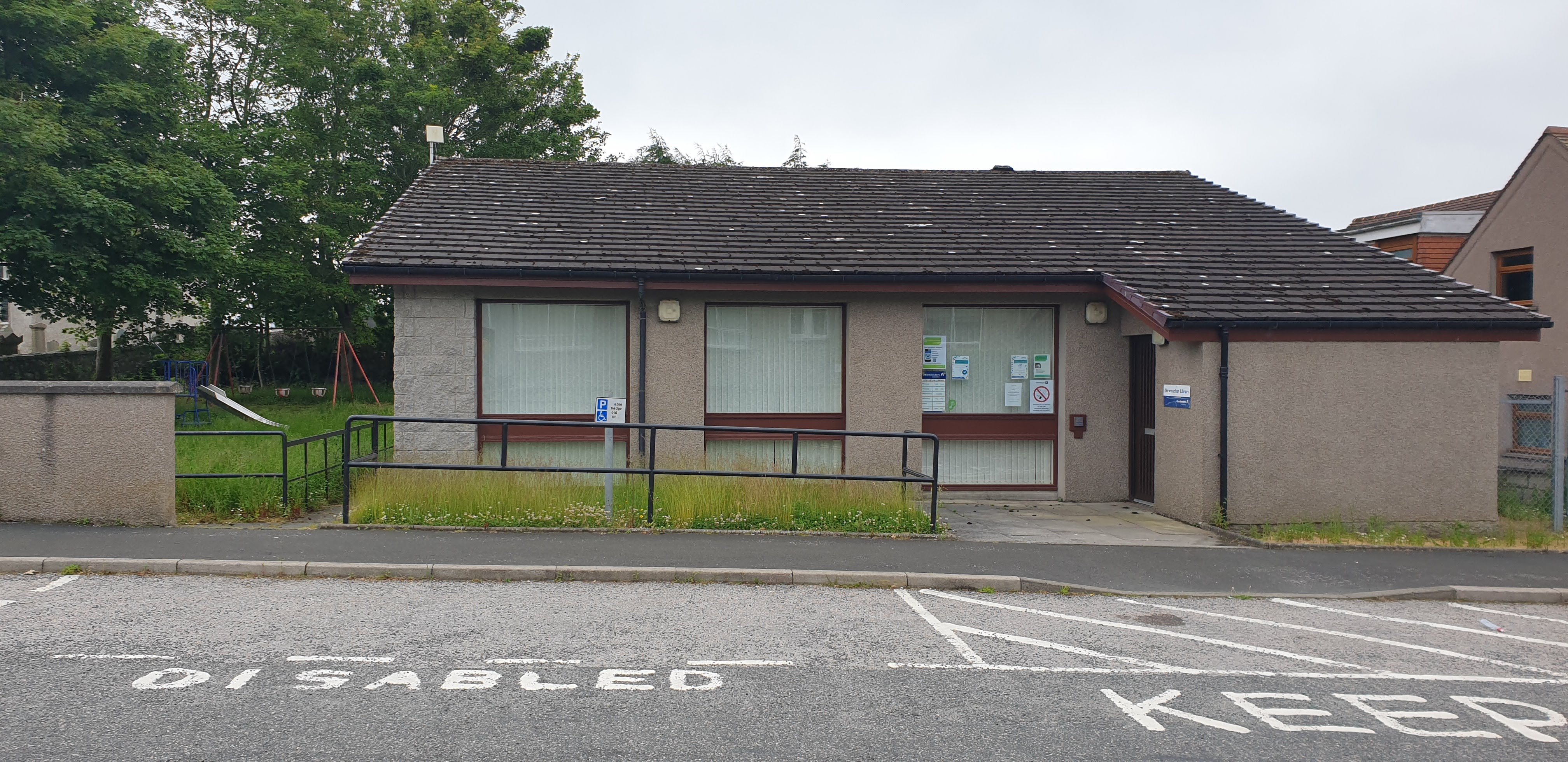 Local library in Newmachar